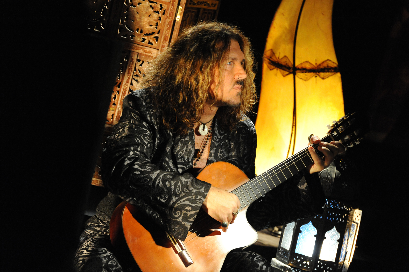 Valenteano